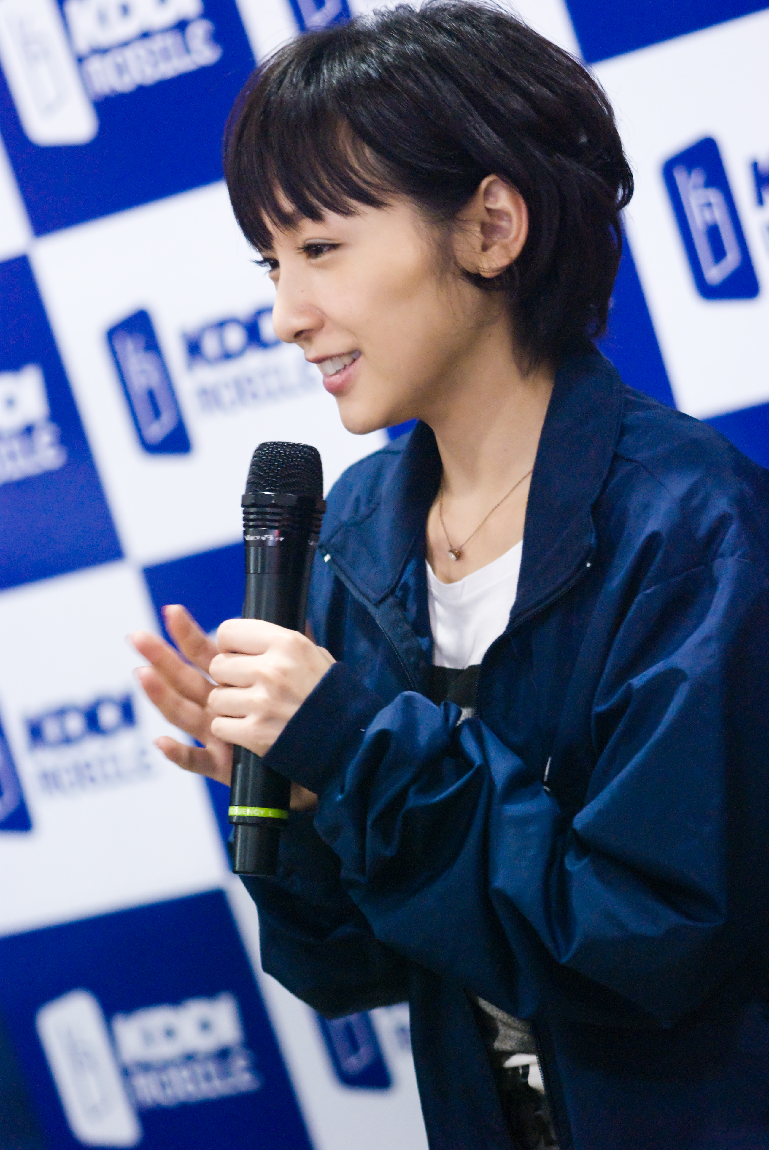 Ai Kago at a KDDI press conference held at the Mitsuwa Marketplace in Edgewater, NJ.